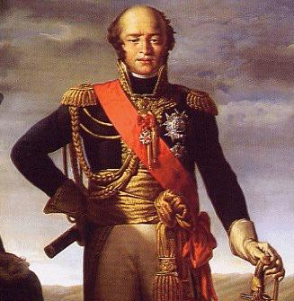 This image is in the public domain because its copyright has expired in the United States and those countries with a copyright term of life of the author plus 100 years.